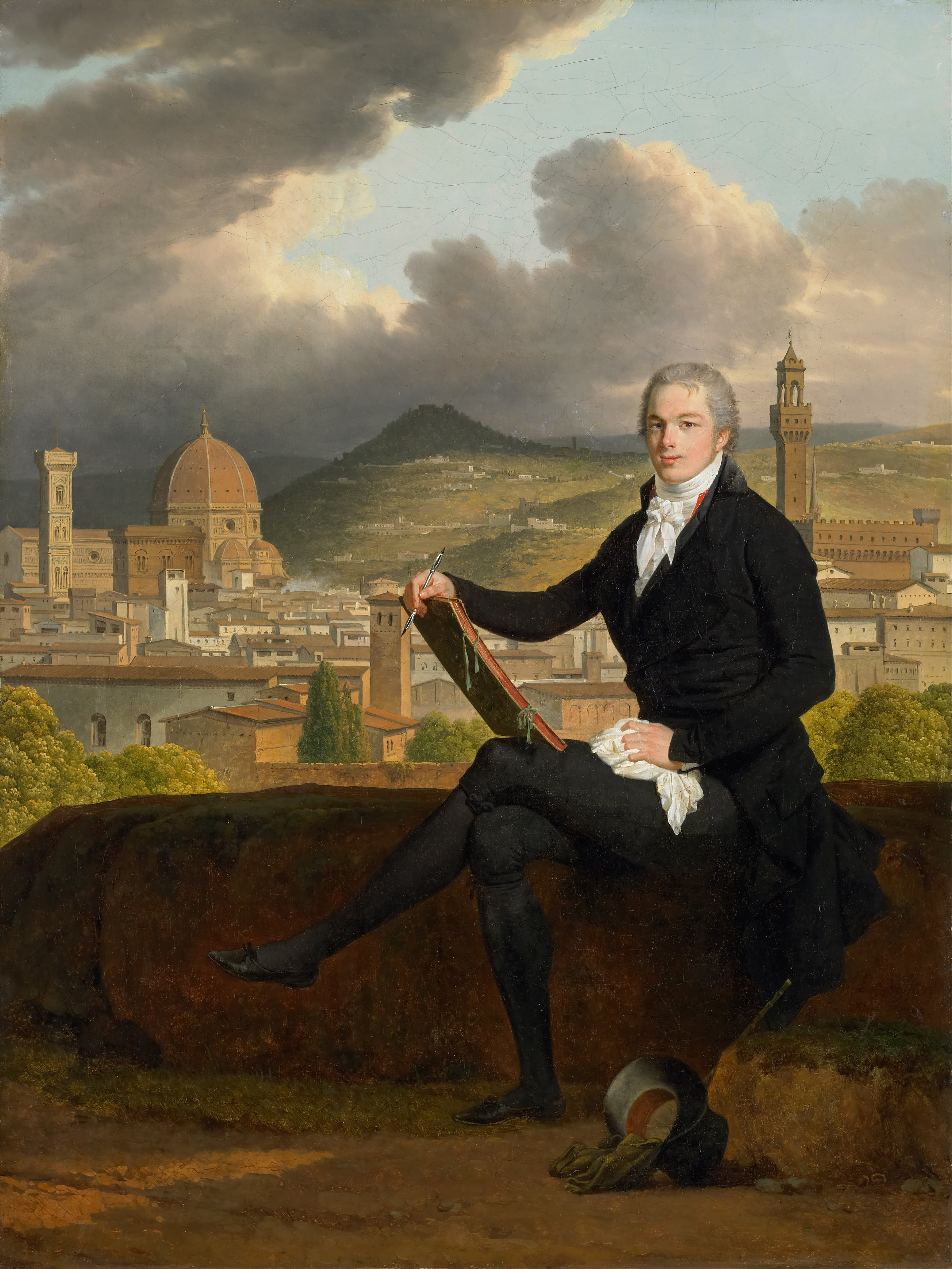 At the time of this portrait, Dr. Penrose was secretary to the English envoy to the Duke of Tuscany. He is seated on an upper terrace of the Boboli gardens above Florence, holding a sketchbook and a portcrayon.